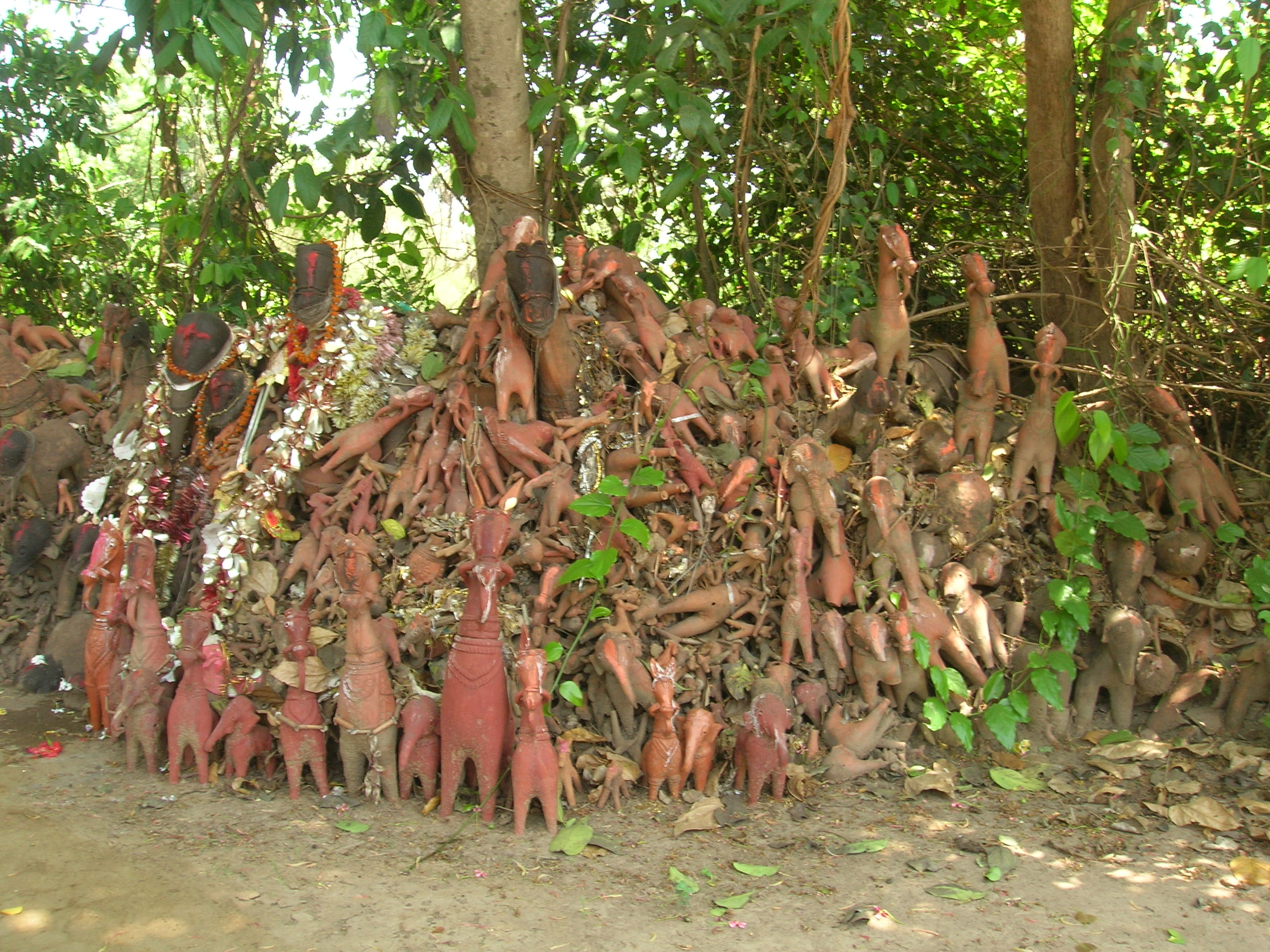 Dharmarajtala, the sacred shrine of Dharmathakur, at Surmanagar village, Bankura dist., West Bengal, India.